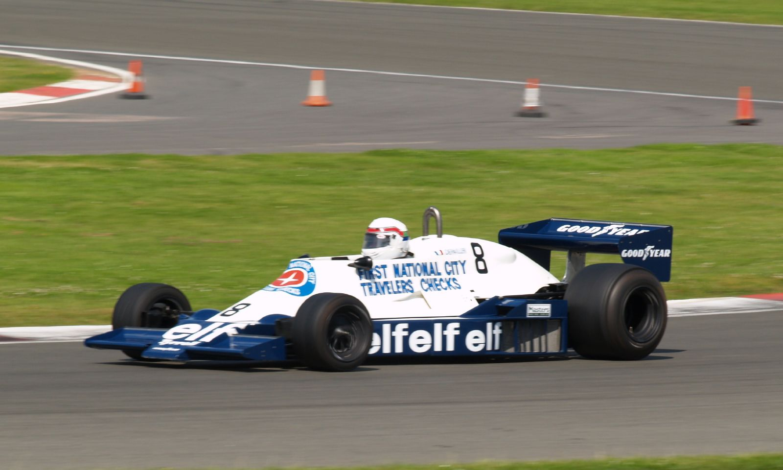 A Tyrrell 008 Formula One car being driven at the Silverstone Classic meeting in 2007.